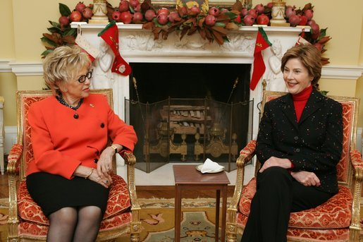 Former United States First Lady Laura Bush hosts Viviane Wade (left), First Lady of Seengal and wife of President Abdoulaye Wade, for tea in the White House.